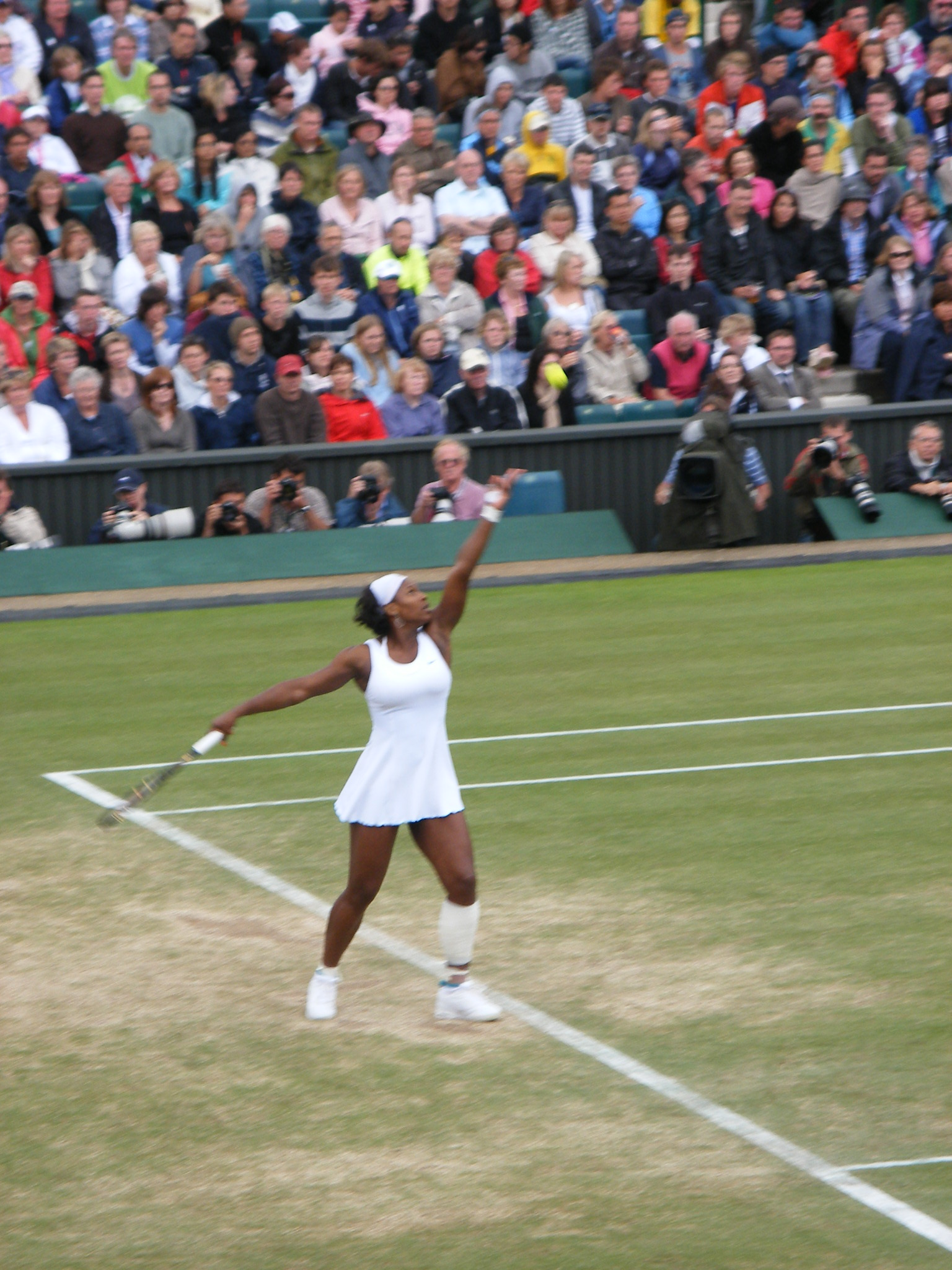 Serena Williams serves at Wimbledon, on Centre Court, against Justine Henin